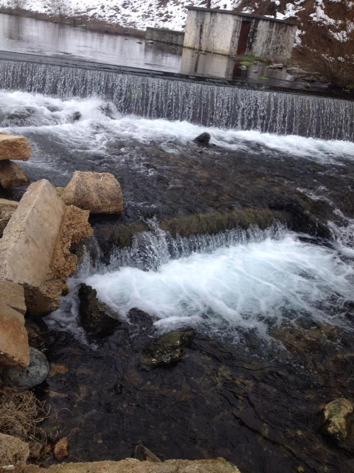 Bukuri e krijuar nga natyra